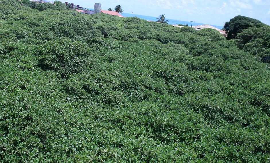 View of the world's largest cashew tree in Parnamirim, Rio Grande do Norte, Brazil.